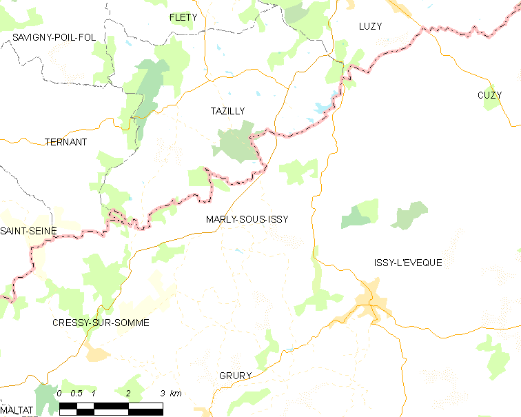 Map of French municipality